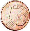 Common (or European) side of a €0.01 coin. It is copyrighted by the European Union.